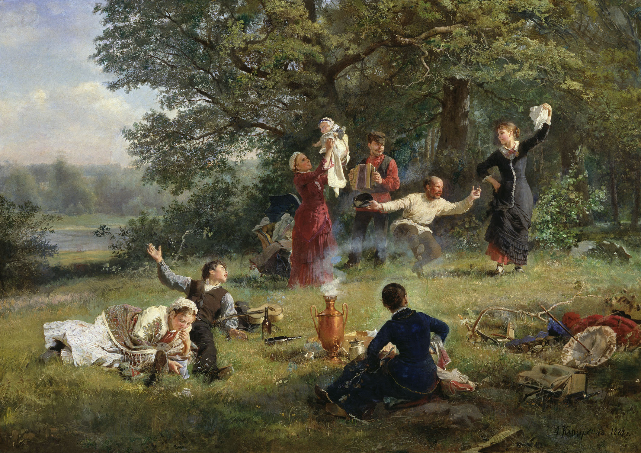 Alexey Korzukhin, The Sunday (1884)